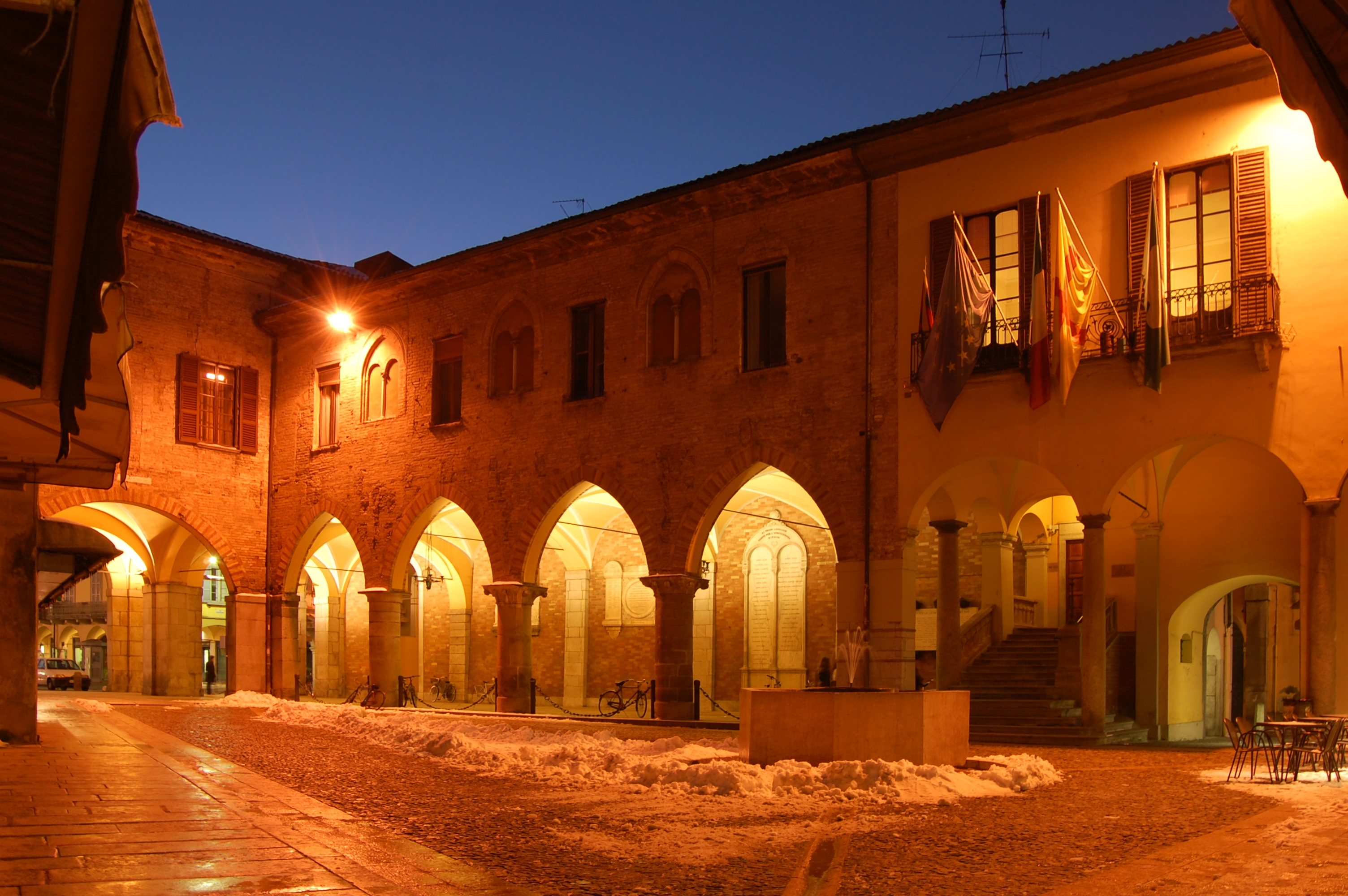 Piazza Broletto by night, Lodi, Italy